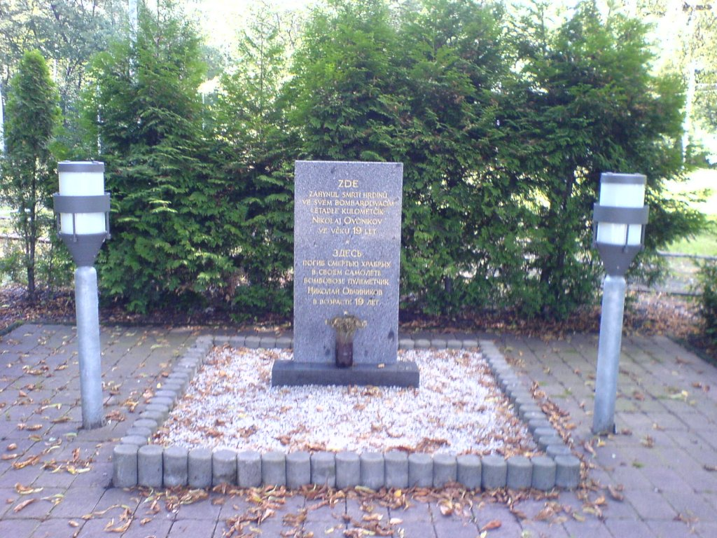 Monument on Hulváky Hill.